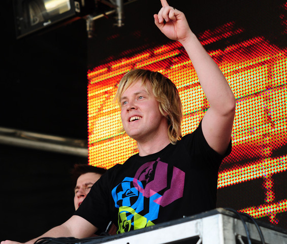 Super8 & Tab @ Wellington Square (1/3/2009)